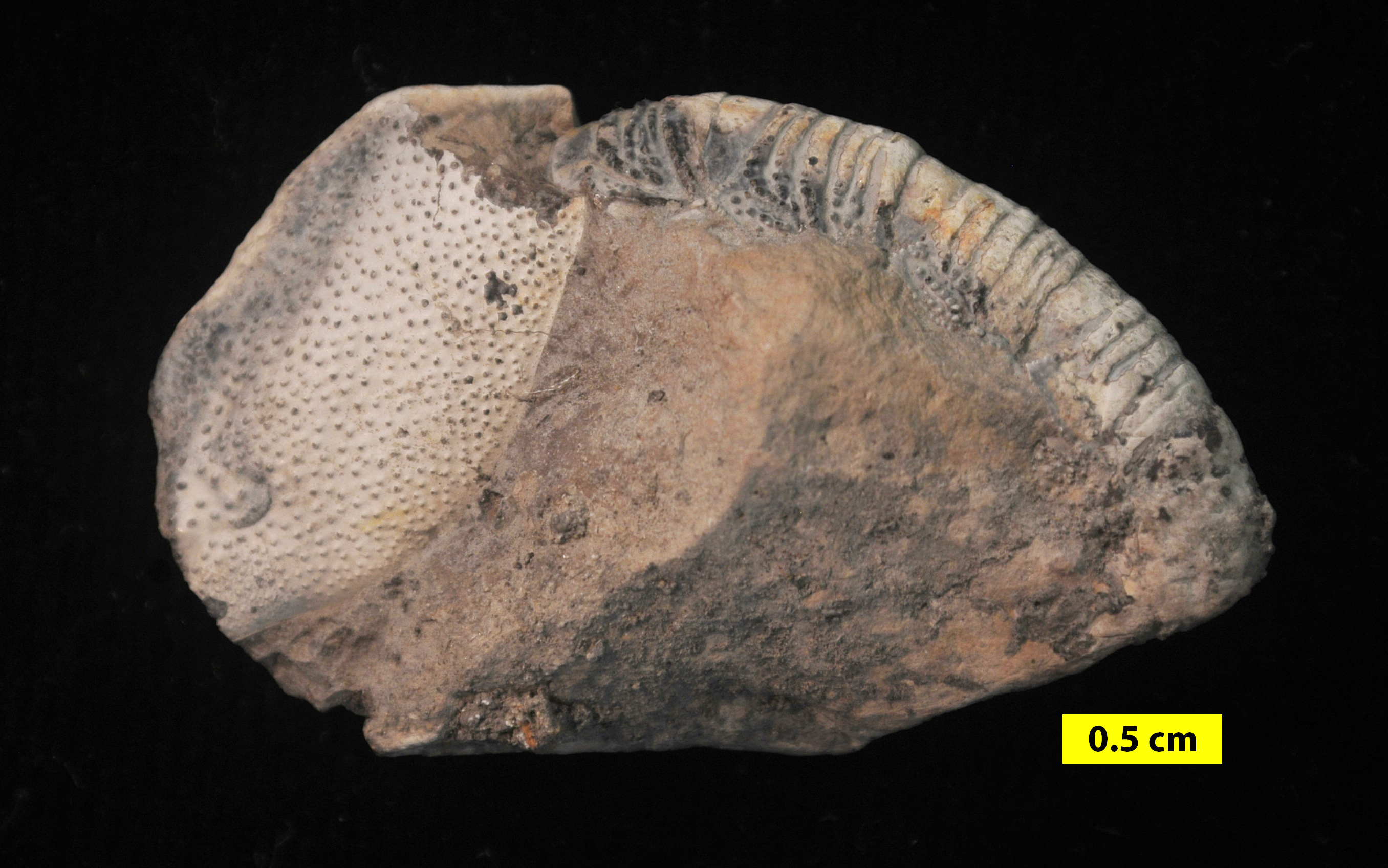 Meyeria ornata, a lobster from the Speeton Clay (Lower Cretaceous). Specimen found by Mae Kemsley